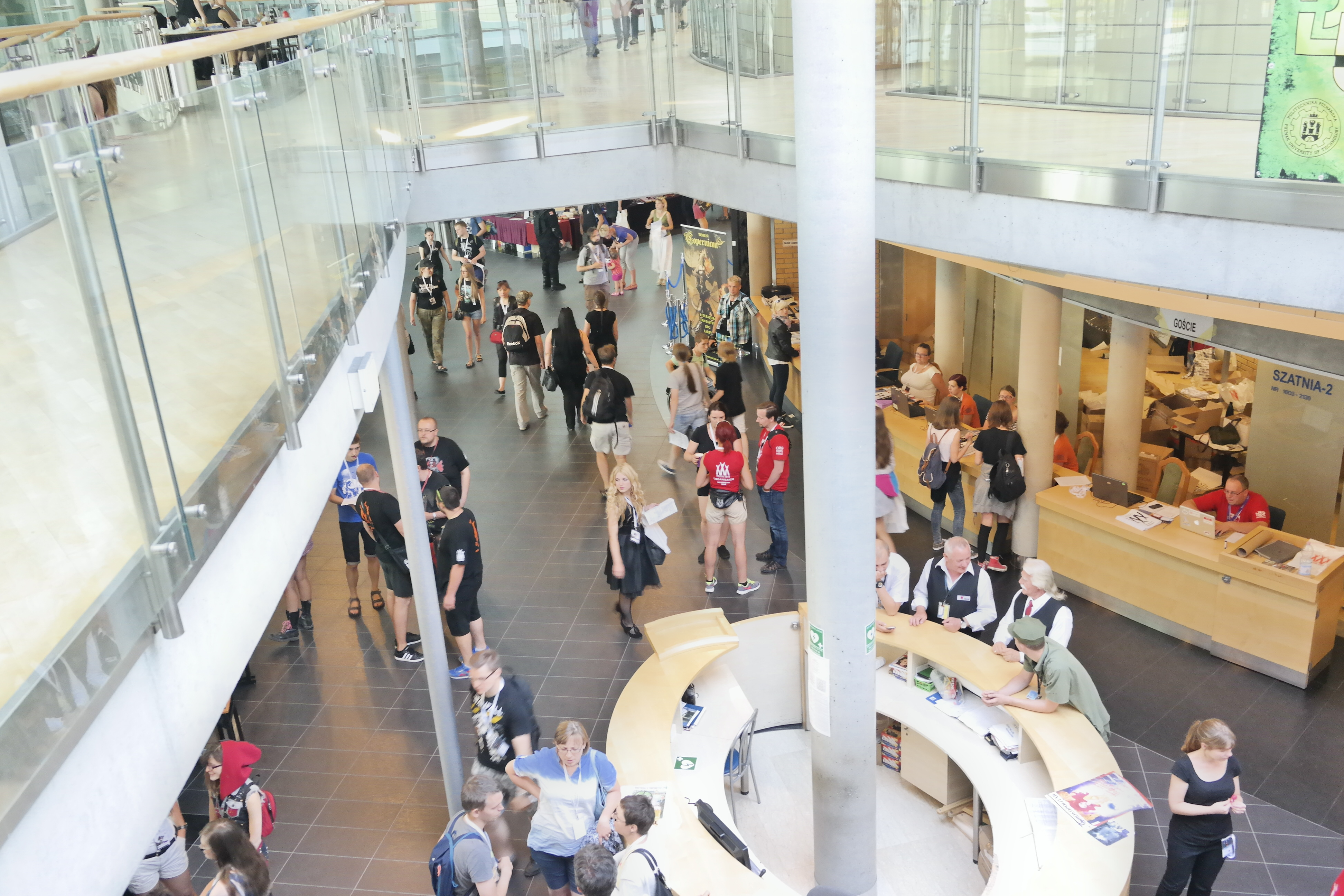 Polcon 2015 in Poznań, Polish science fiction convention.